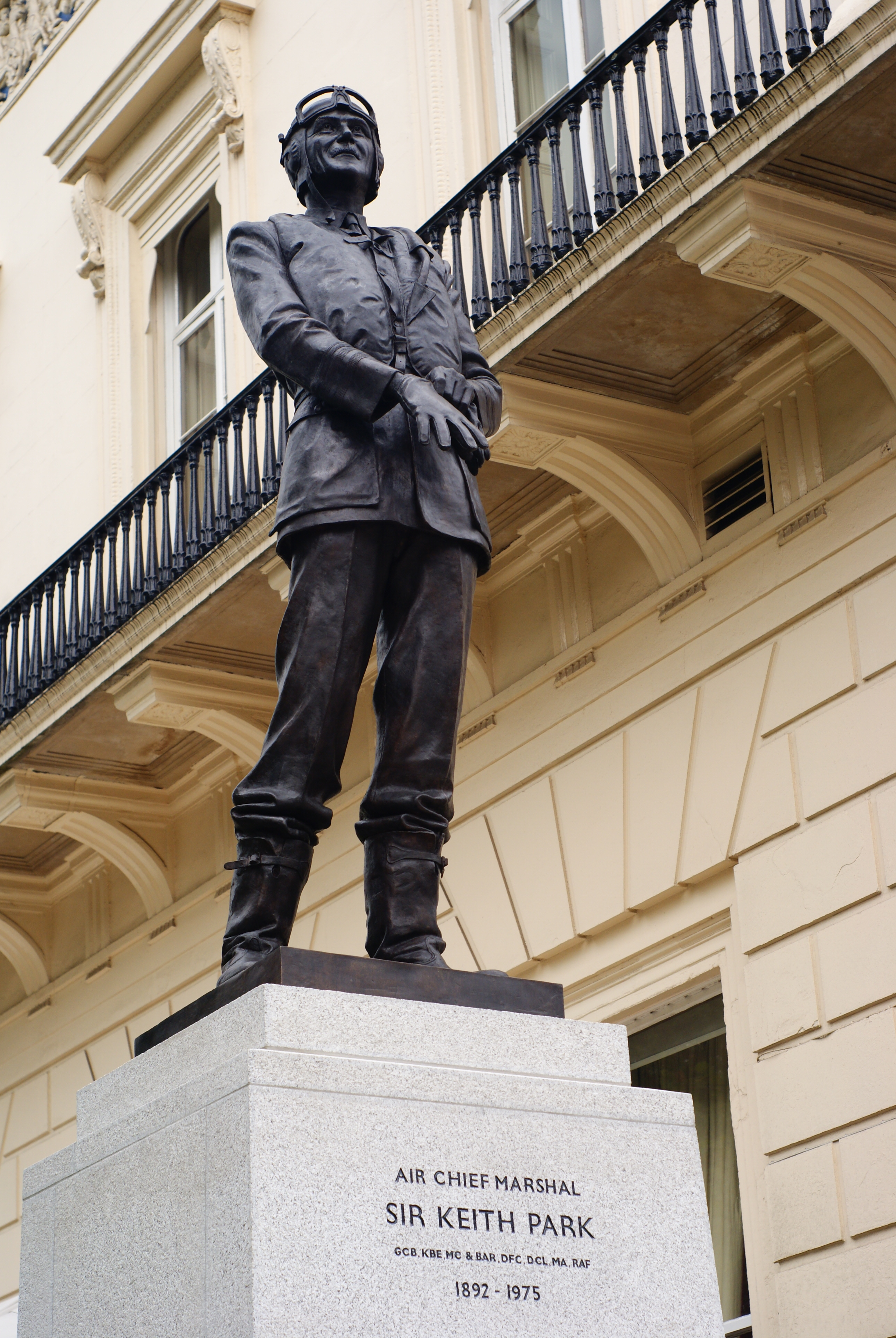 Statue of Sir Keith Park by Les Johnson, Waterloo Place. Unveiled 15 September 2010.